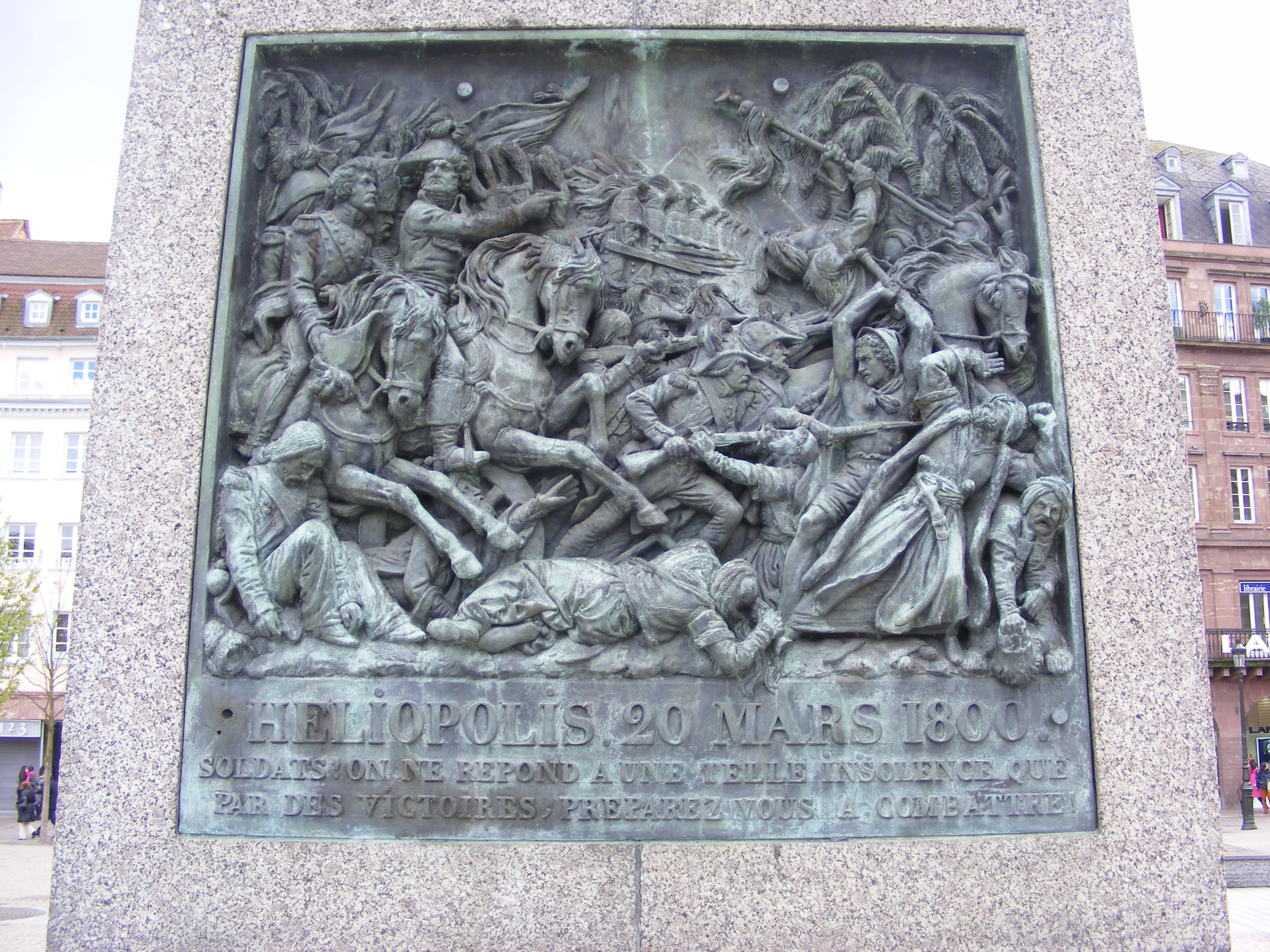 Relief of the battle of Heliopolis of March 20, 1800, mounted on the statue of General Jean-Baptiste Kléber on the Place Kléber in Strasbourg